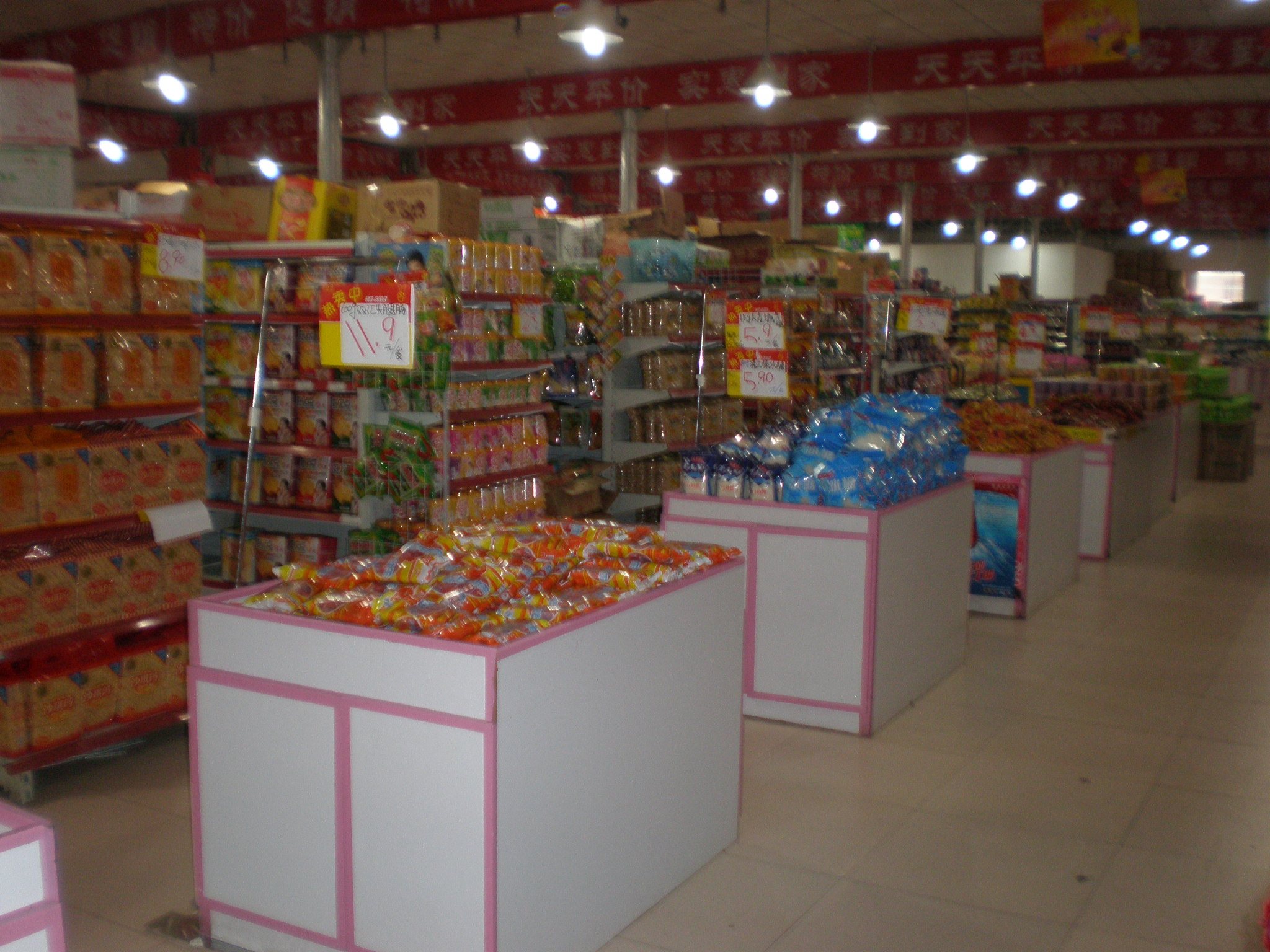 The Wonderful Supermarket (actual English name) in Shangri-La, Yunnan, China.